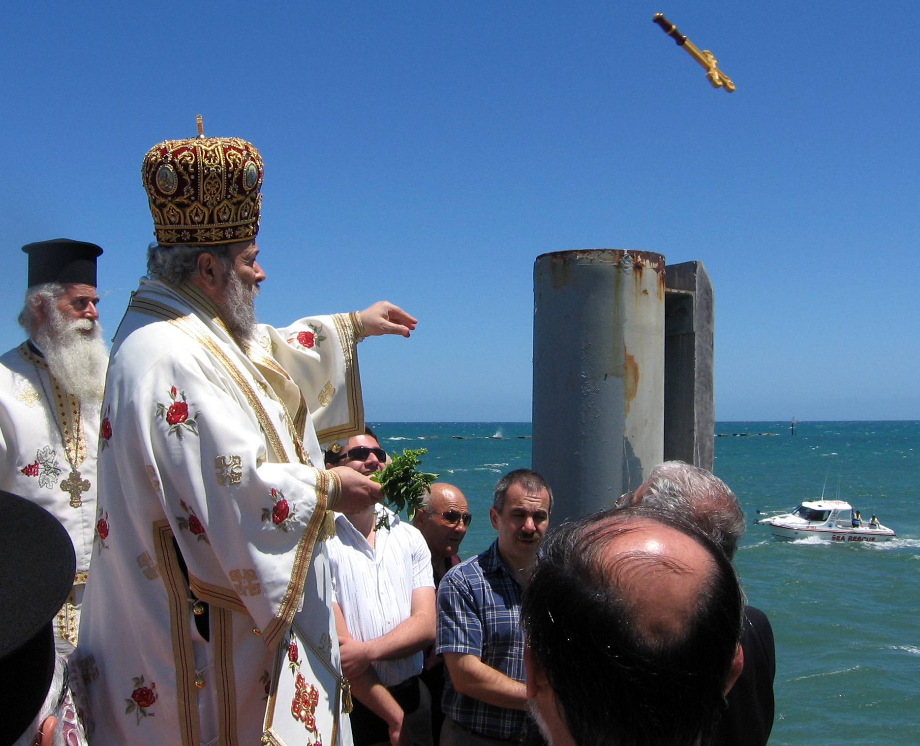 Greek Orthodox Bishop Nikandros (Palyvos) of South Australia, throwing the cross at the Theophany into the sea to the divers below